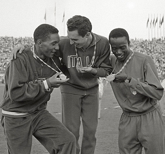 Lester Carney, Livio Berruti, Abdoulaye Seye at the 1960 Olympics